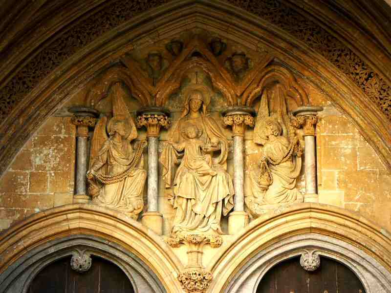 Salisbury Cathedral, England - Interior